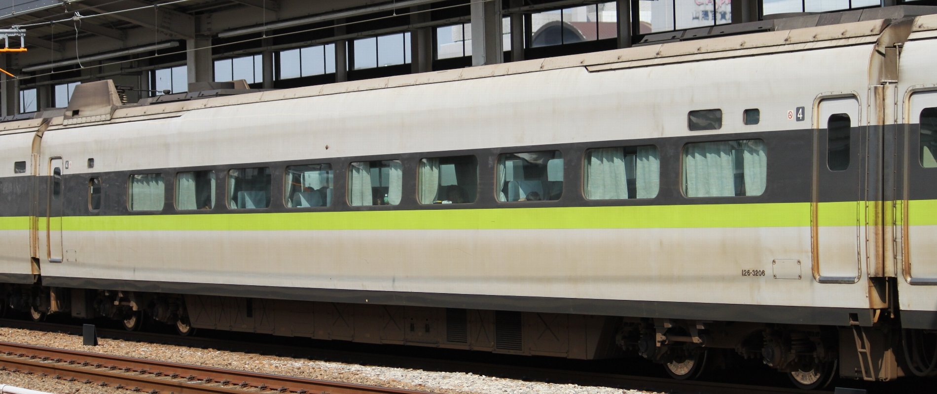 Shinkansen series 100(126-3206) in Himeji Station